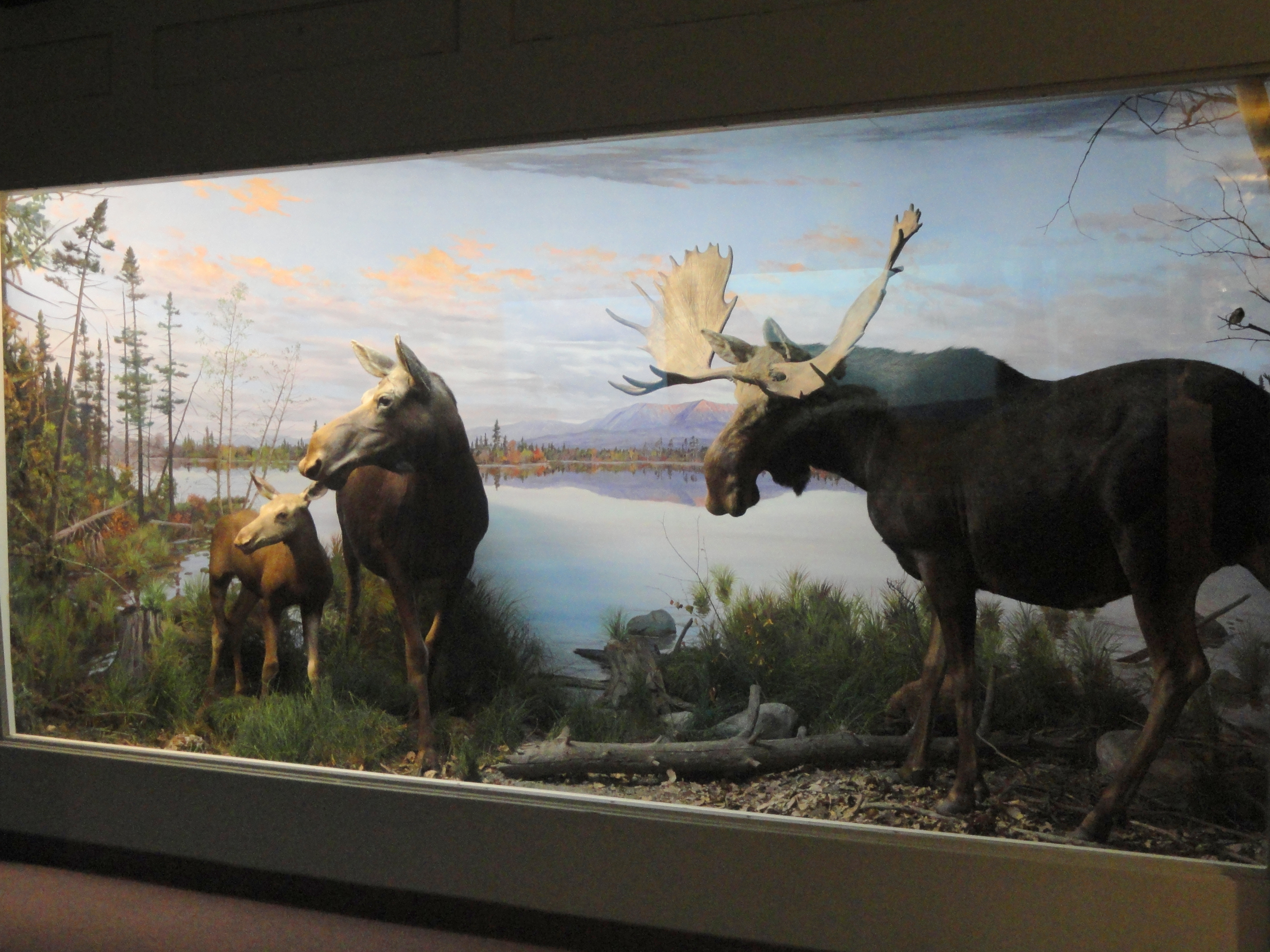 Exhibit in the Springfield Science Museum, 21 Edwards Street, Springfield, Massachusetts, USA. The museum permitted photography without restriction.